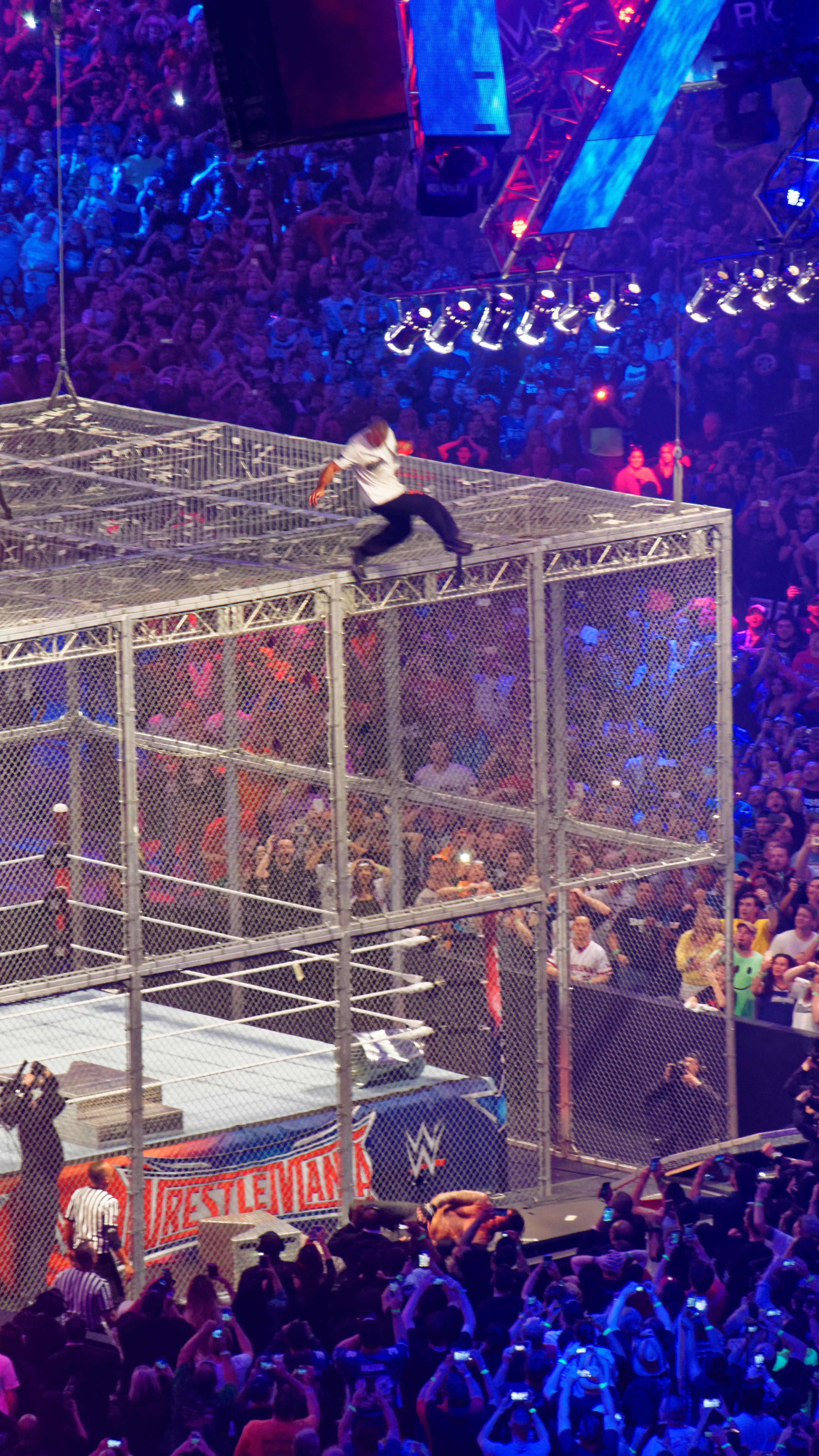 WrestleMania 32 was the thirty-second annual WrestleMania professional wrestling pay-per-view (PPV) event produced by WWE. It took place on April 3, 2016, at AT&T Stadium in Arlington, Texas. Twelve matches were contested on the card (with three matches occurring on the WrestleMania Kickoff pre-show - two airing live on the USA Network, which televised the second hour of the pre-show). The Undertaker def. (pin) Shane McMahon (in 30:02) Type of match : 'Hell In A Cell' Rating : **1/2